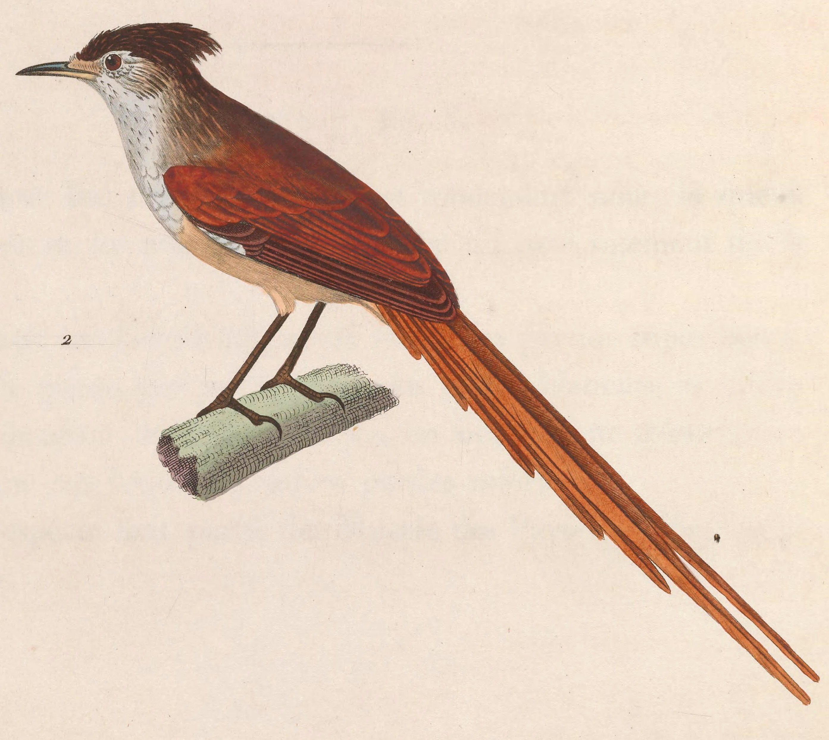 « Synallaxis setaria » = Leptasthenura setaria (Araucaria Tit-Spinetail)